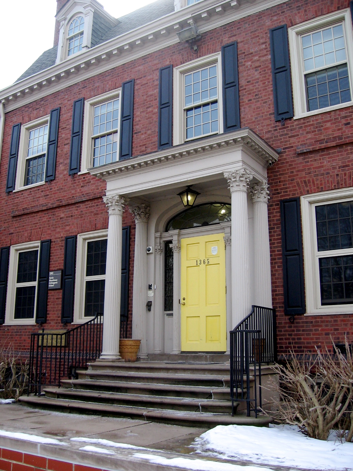 The front of the Sonia Shankman Orthogenic School located in Chicago, Illinois, United States.